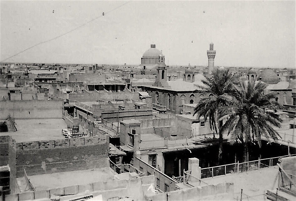 Houses, churche, and mosque at the Shorjah neighborhood, Baghdad, photographed 1942